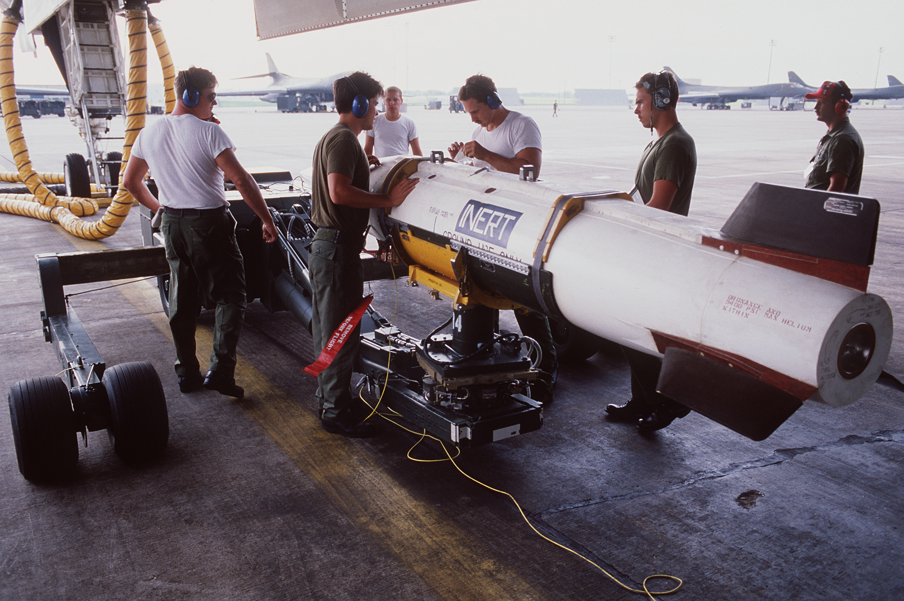 Members of the 96th Munitions Maintenance Squadron inspect an inert AGM-69A short range attack missile (SRAM) after removing it from the bomb bay of a B-1B bomber aircraft.